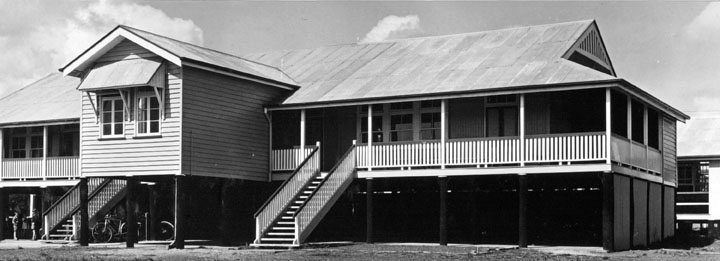 Boondall State School, New Classroom and Teacher's Room.